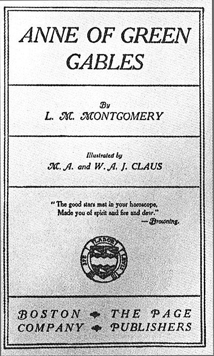 First Page of Anne of Green Gables, published 1908